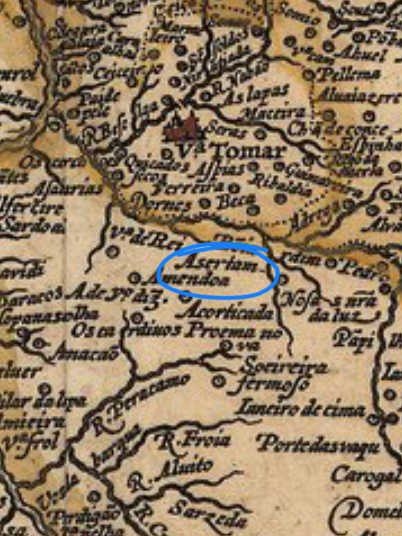 Part of a map of 1600, so in public domain that I trimmed.